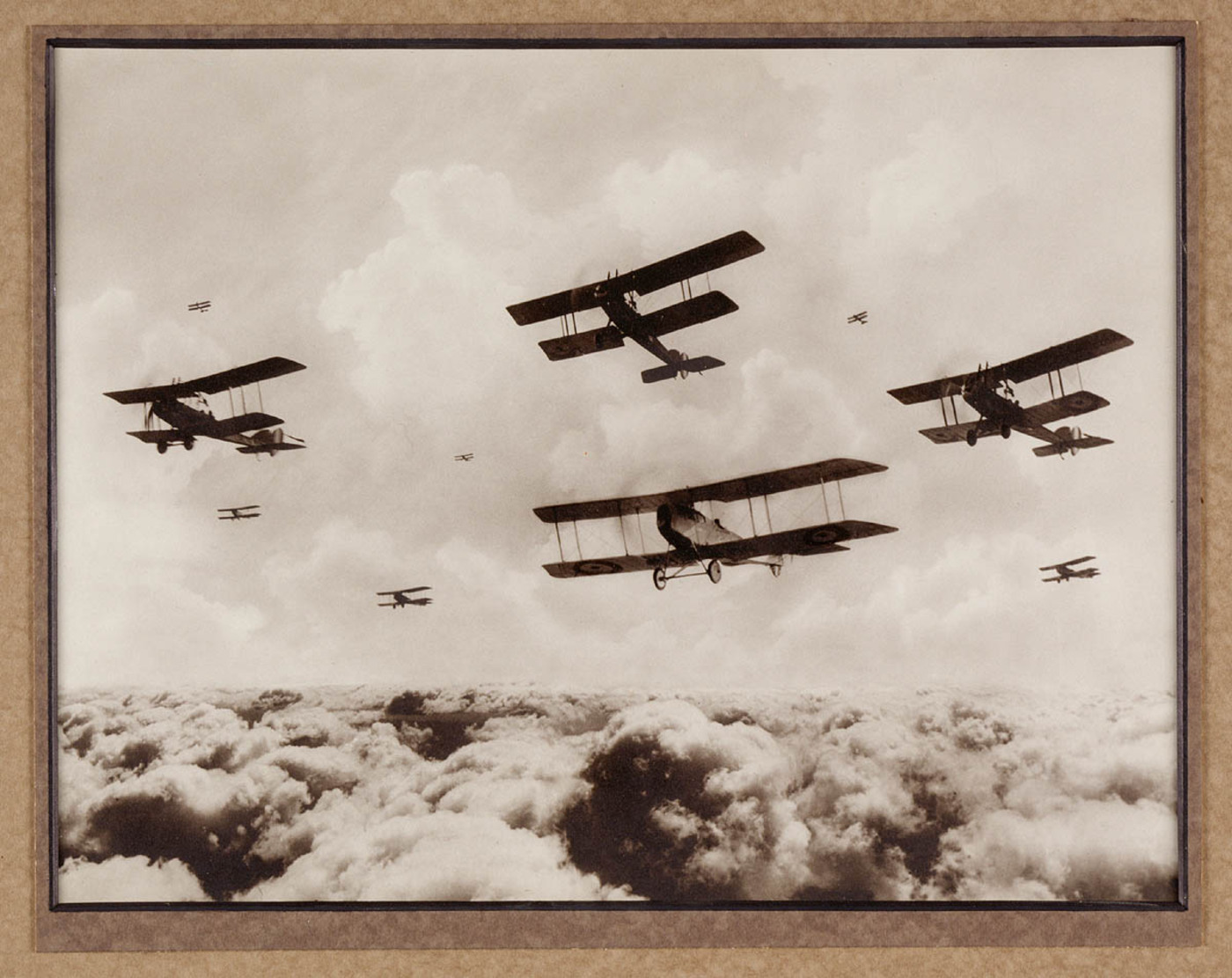 1st Australian Flying Corps, Palestine